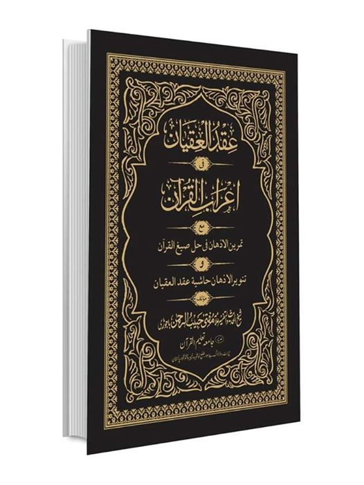 عقد العقیان فی اعراب القران مع تمرین الاذھان فی حل صیغ القران و تنویر الاذھان حاشیۃ عقد العقیان